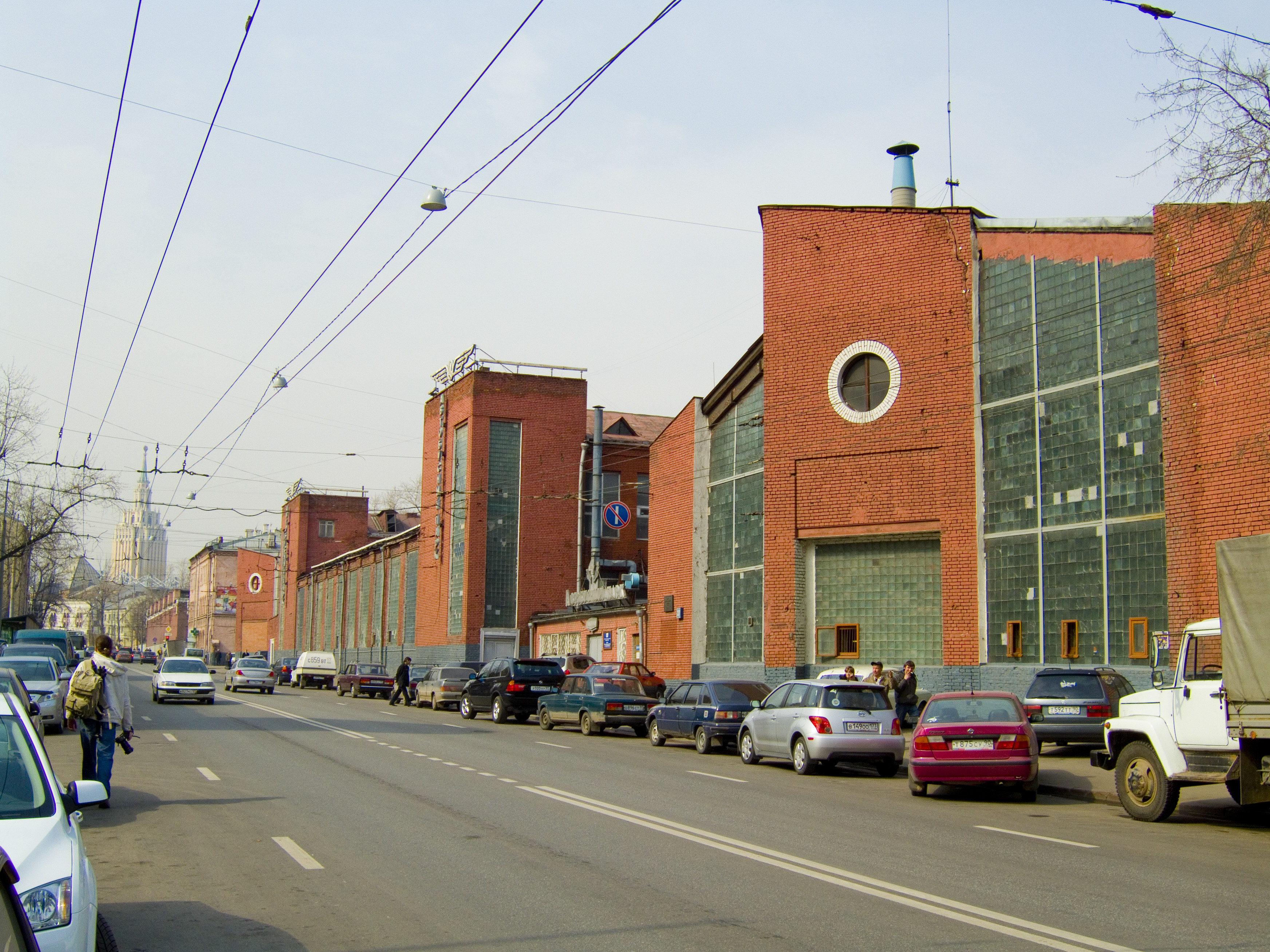 Horseshoe_Garage_by_Melnikov_and_Shukhov